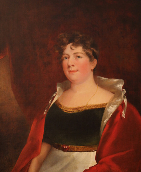 Elizabeth Billington by Masquerier, John James now at the Garrick Club (before 1813)